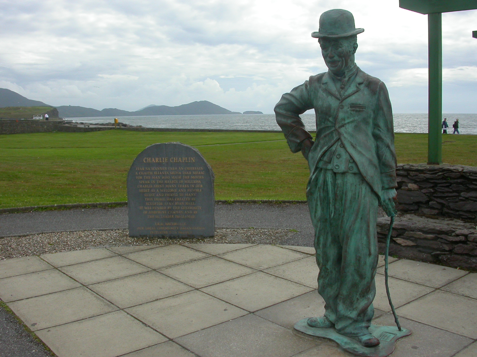 Bronze statue of Charlie Chaplin in Waterville, County Kerry, Ireland. More details.